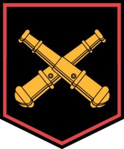 Emblem of the 13th Artillery Regiment of the Czech Army Land forces.